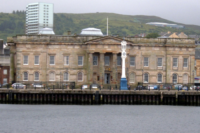 Custom House Greenock Now used by the local authority.